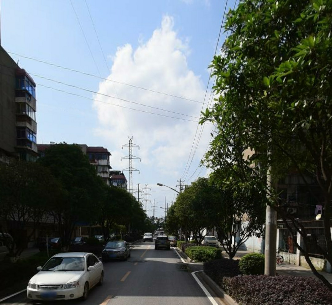 Jianshe Road (5th),Xin'goqiao Subdistrict.